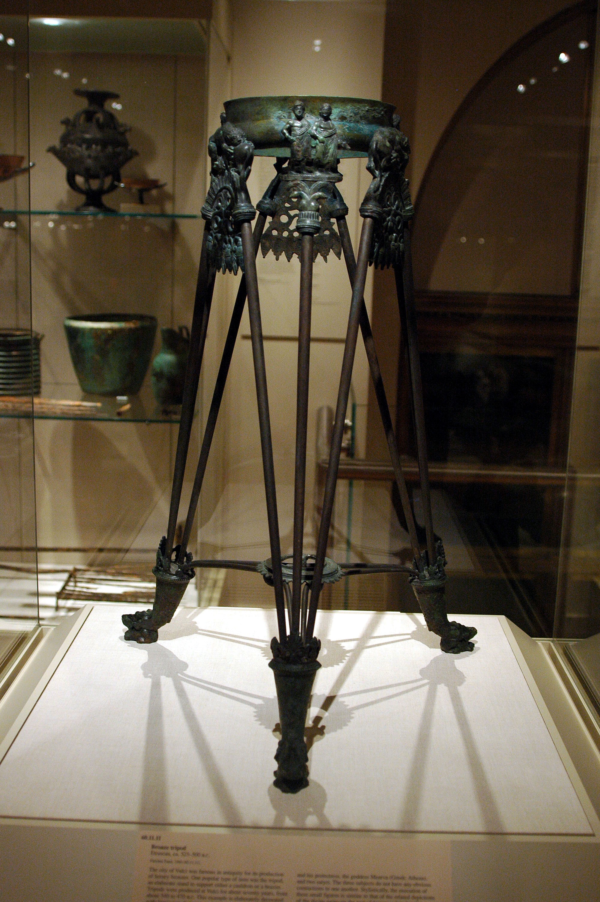 Metropolitan Museum of Art # 60.11.11